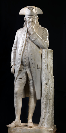 Sculpture of Benjamin Franklin by Hiram Powers, 1844-1860